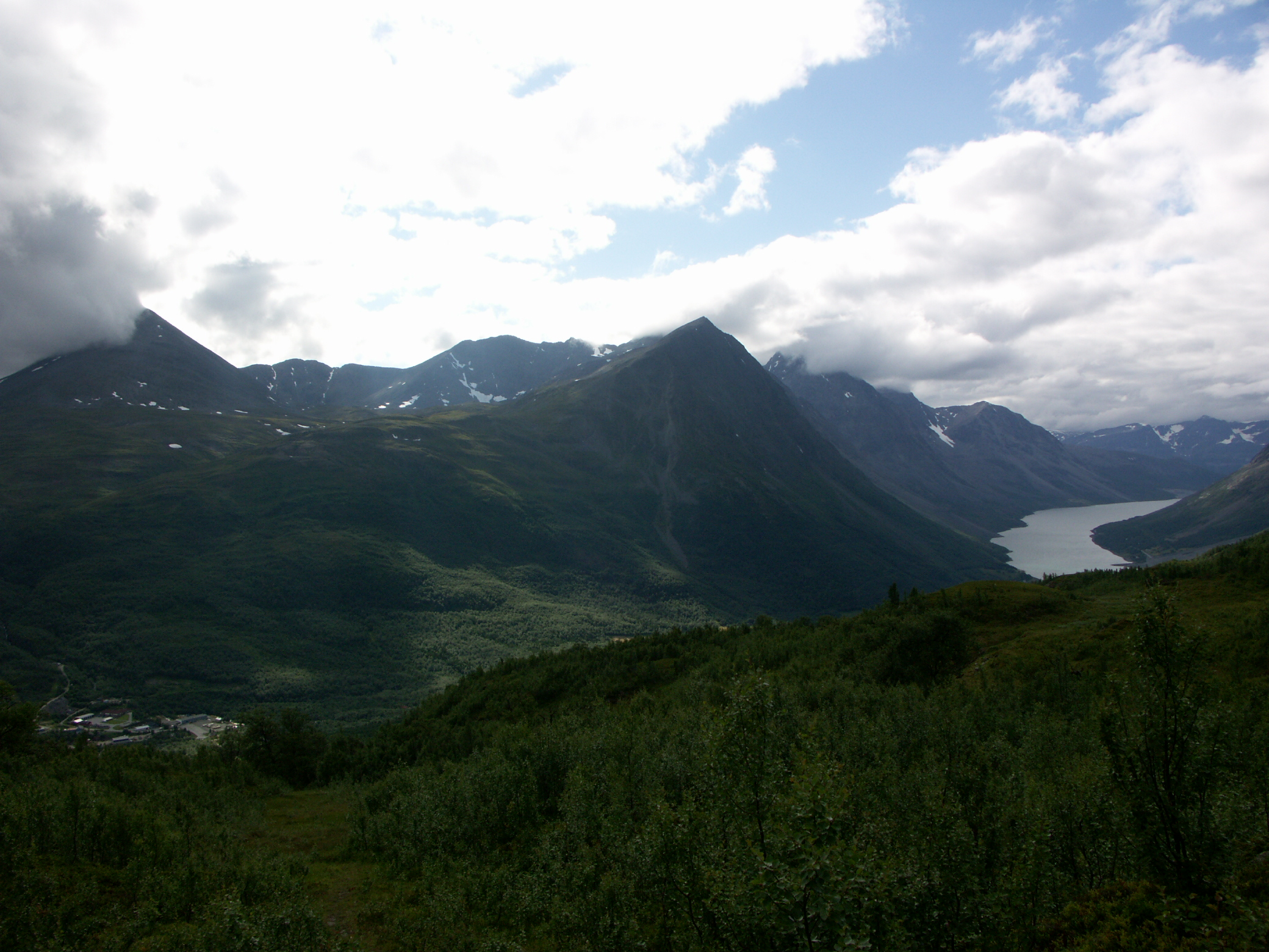 Lyngseidet, southern Lyngen Alps, and Kjosen fjord from the slopes of Kjostindane